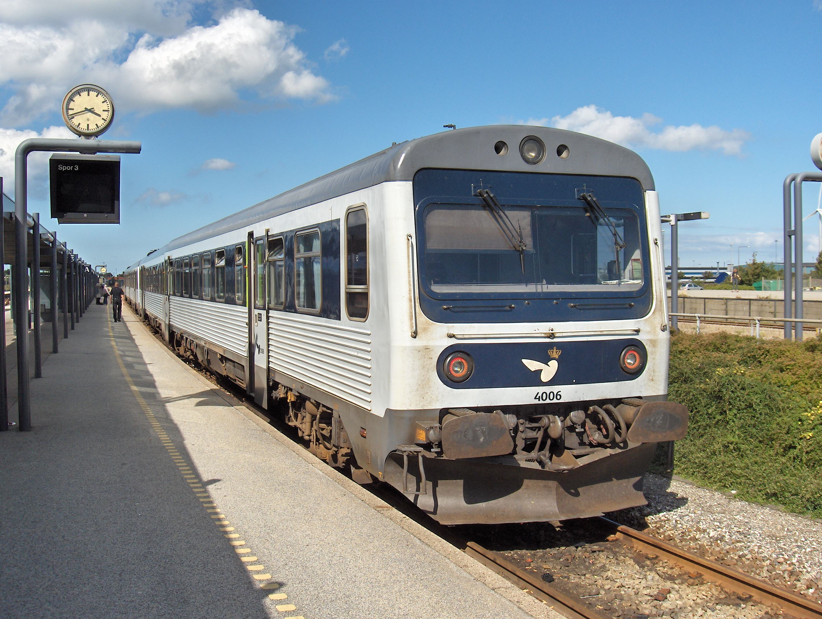 DSB (Danish State Railways) "MR" type diesel multiple unit train at Frederikshavn station, Denmark